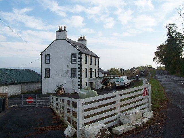 Port Glasgow, Parkhill. Scottish Martial Arts Centre